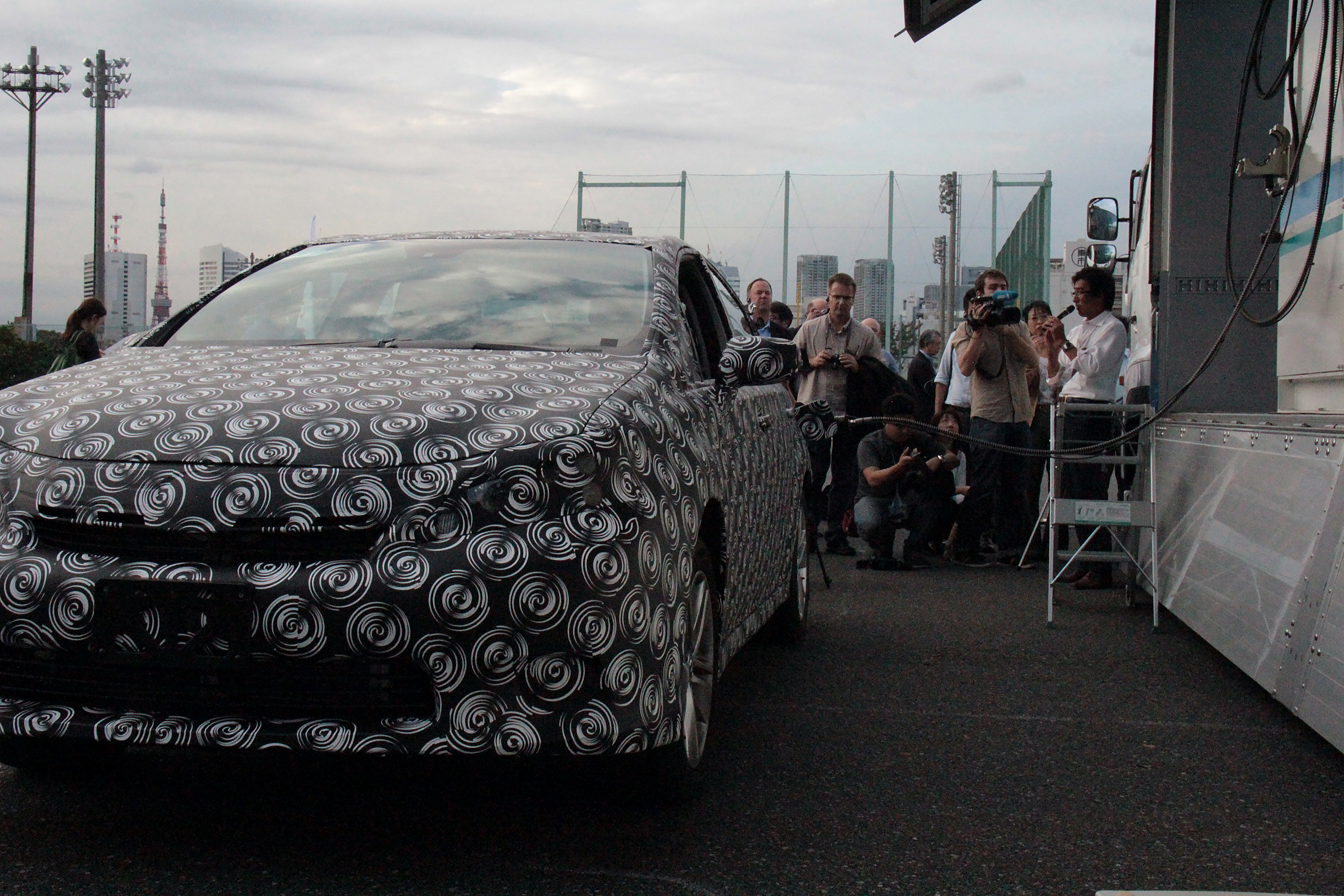 Toyota FCV test mule during hydrogen filling demonstration in Tokyo